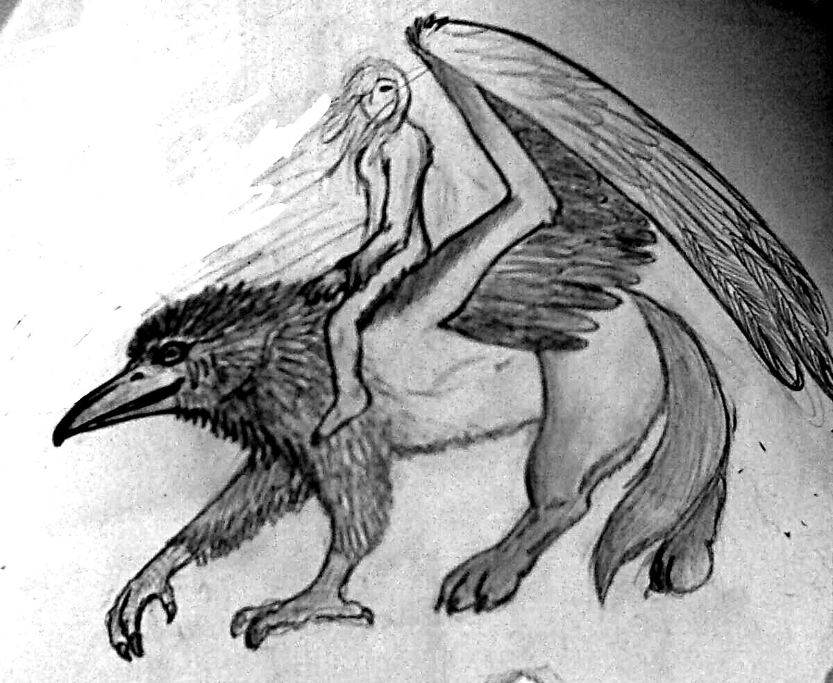 A valravn, pencil draw